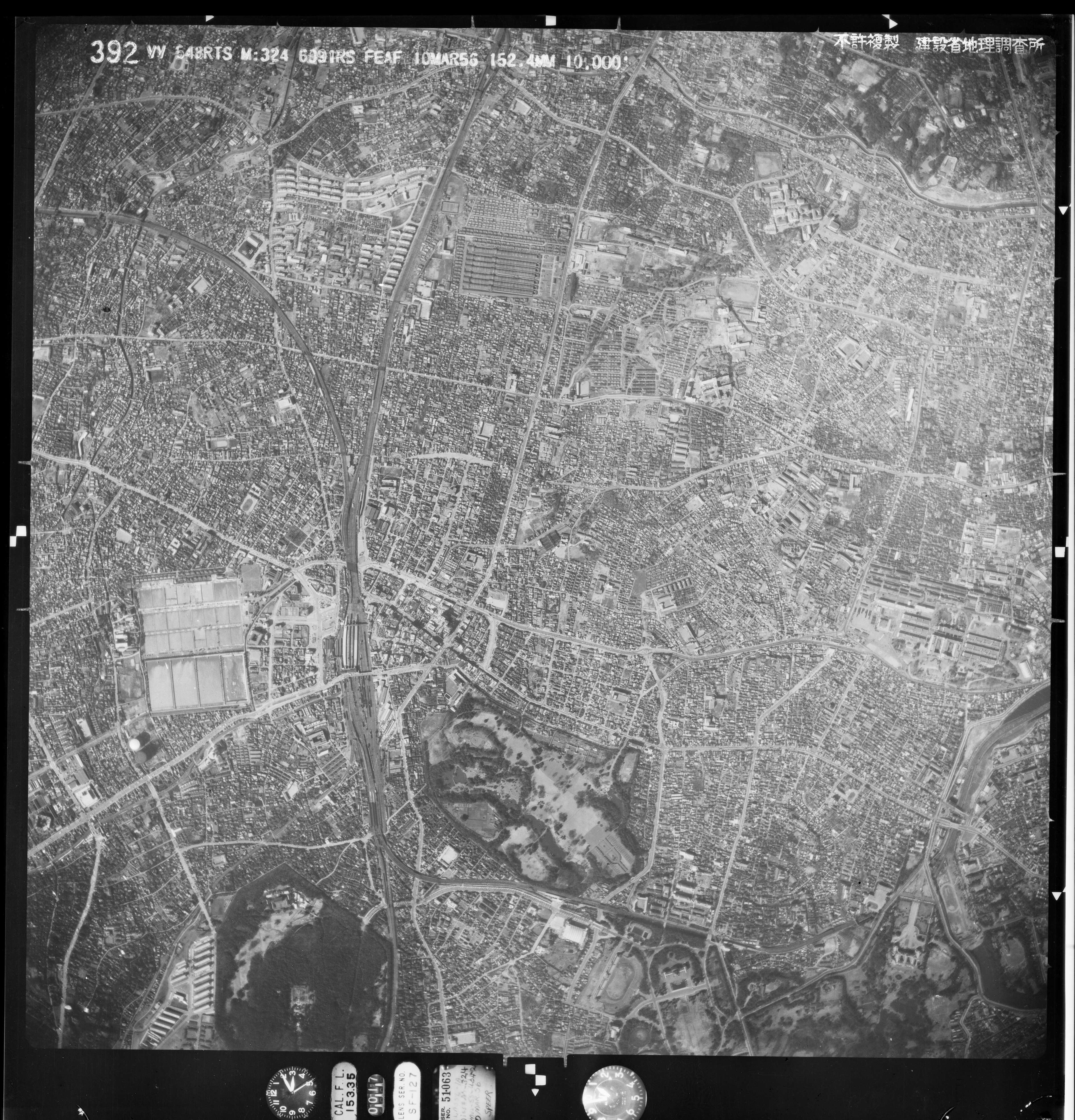 Aerial photo around Shinjuku Gyoen